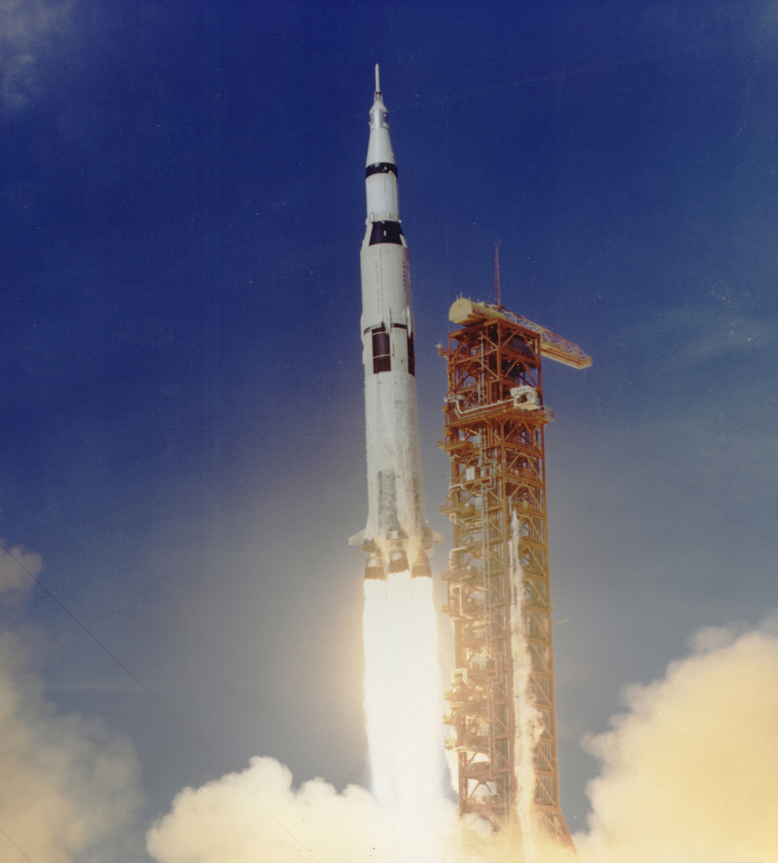 The Apollo 11 mission launched from the Kennedy Space Center, Florida on July 16, 1969. The Saturn V vehicle produced a holocaust of flames as it rose from its pad at Launch complex 39.